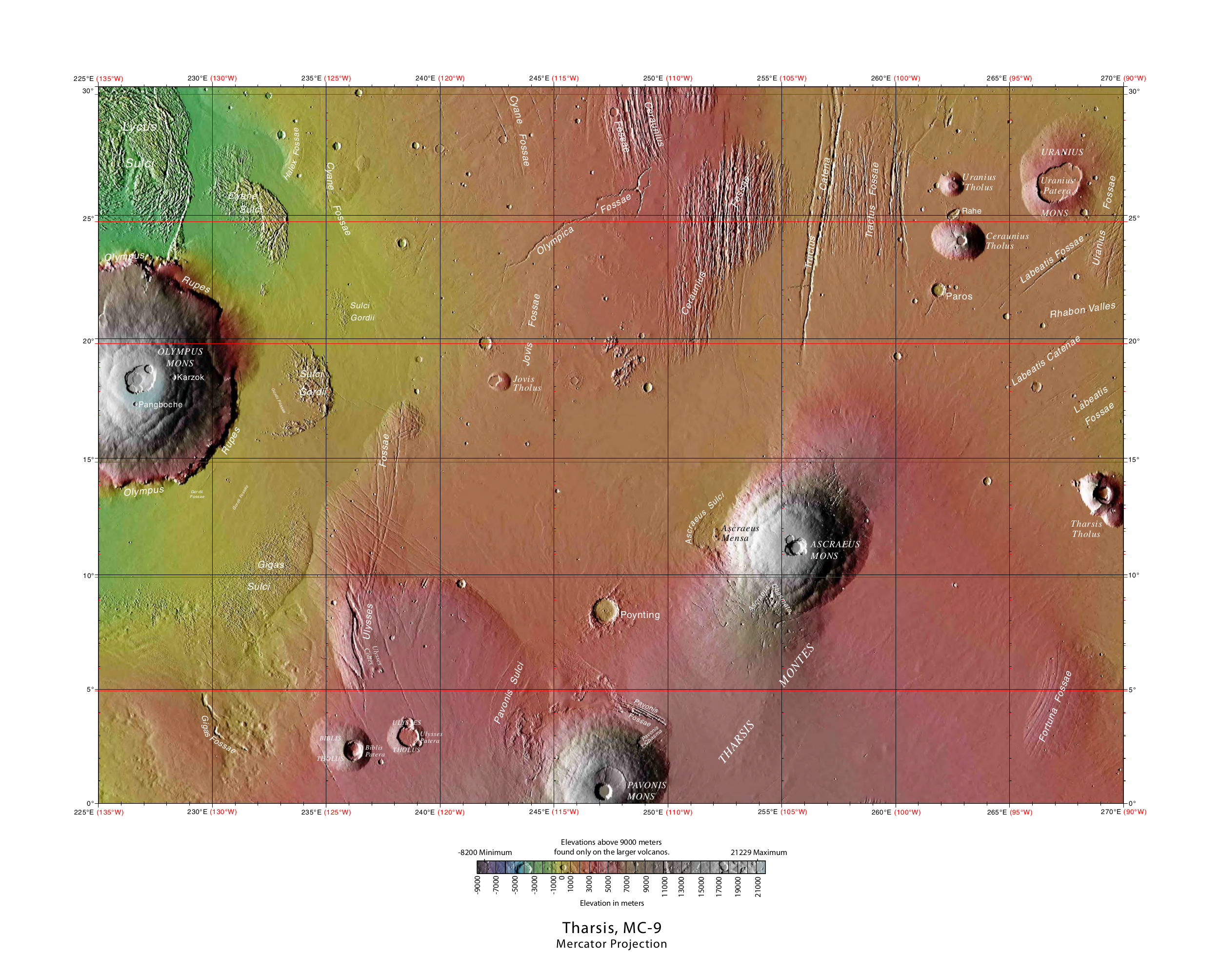 MOLA Topographic Map of Tharsis Quadrangle (MC-9) on the planet Mars. NOTE: Converted the original PDF file to a PNG File (via GIMP v2.8.4 program) - and uploaded to Wikimedia Commons.